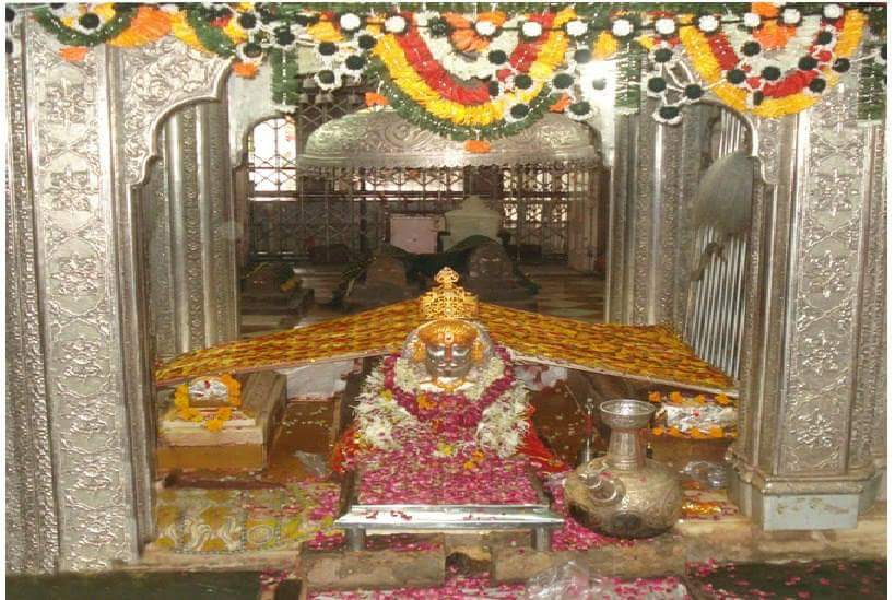 Baba Ramdev Ji, Samadhi